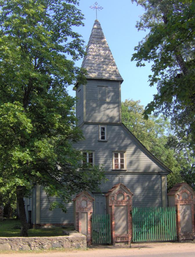 Church in Engure